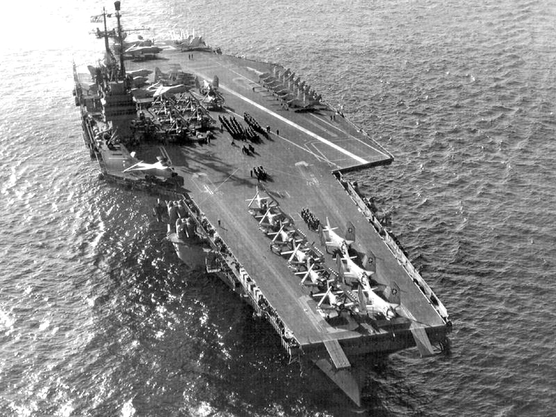 The U.S. Navy aircraft carrier USS Forrestal (CVA-59) in the Mediterrrean Sea with the U.S. Sixth Fleet, in "October 1957" (as stated in the original description). Note: Forrestal, with assigned Carrier Air Group 1 (CVG-1), was deployed to the Mediterranean Sea from 15 January to 22 July 1957. From 16 August to 22 October, she took part in the NATO exercise "Strikeback" in the North Atlantic.